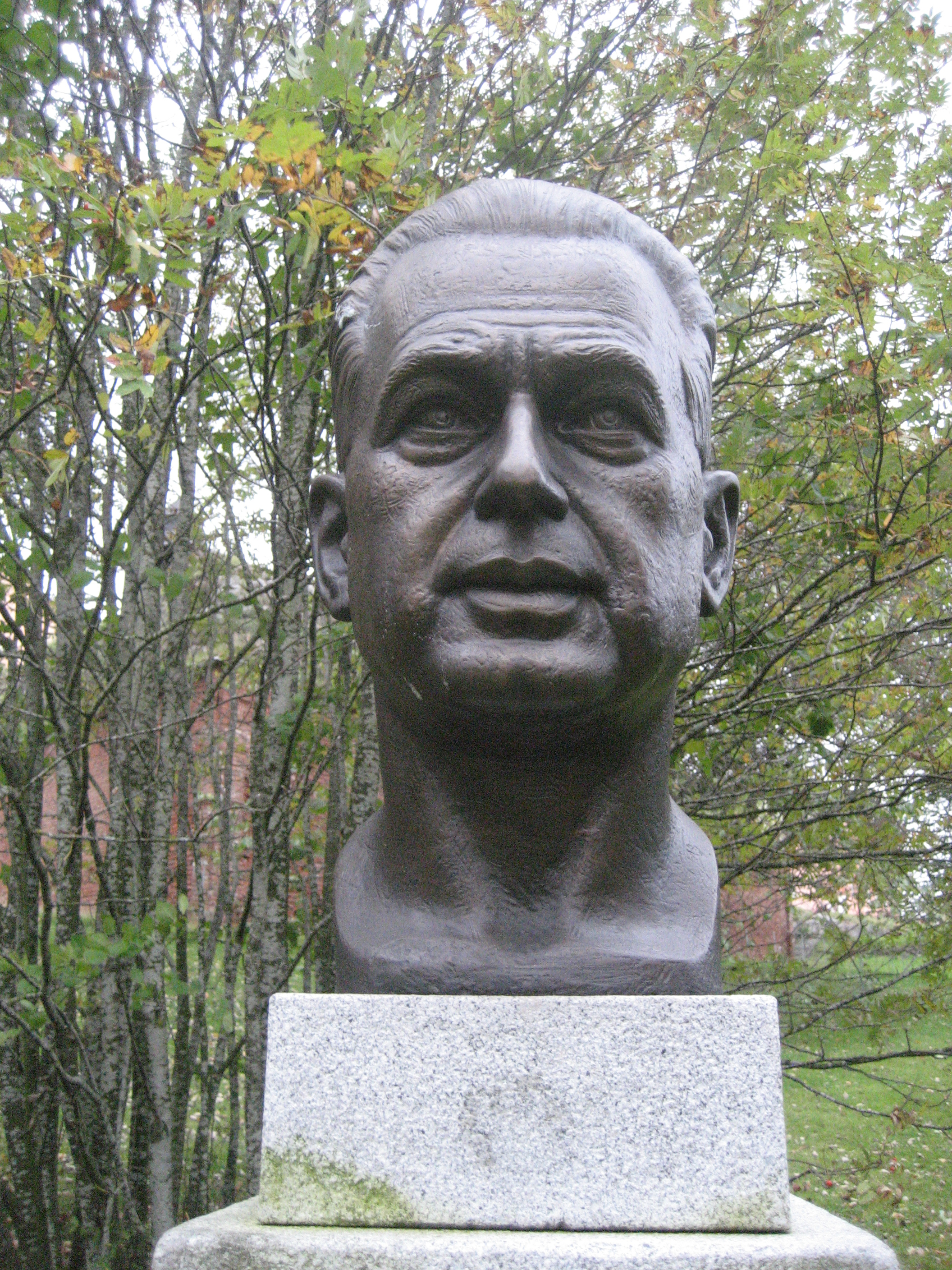 Bust of Dag Hammarskjöld, near Dag Hammarskjöld väg, near Uppsala Castle (Sweden). Sculpture by Svend Lindhart